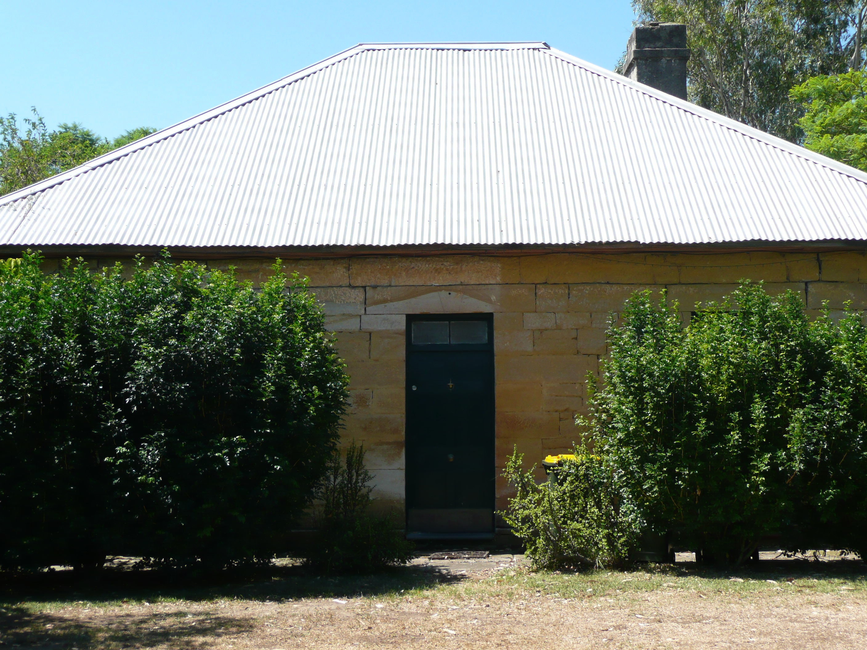 cottage, Victoria Road, Ryde, Sydney